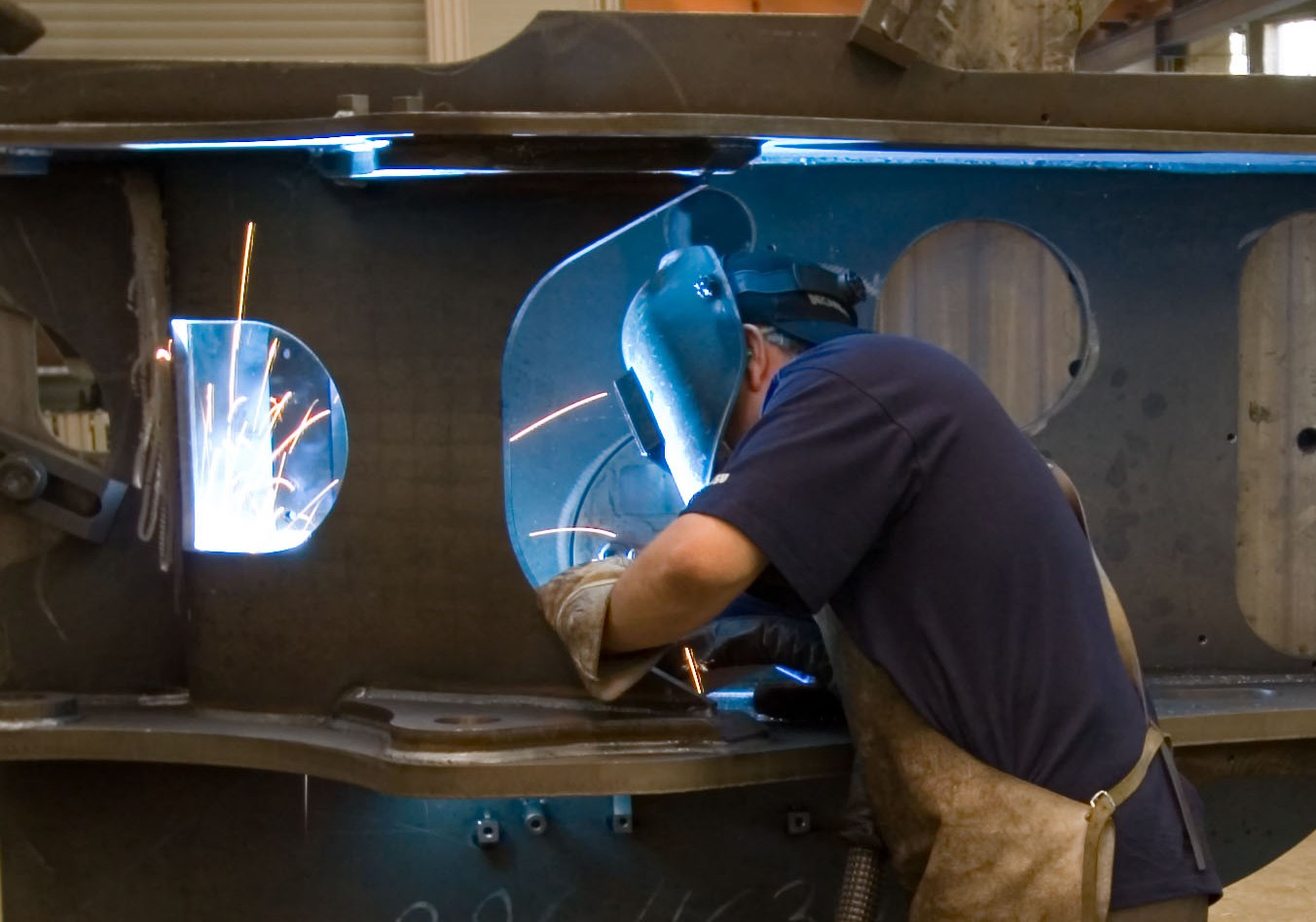 Semi automatic welding on manufcturing of constructiom machine.